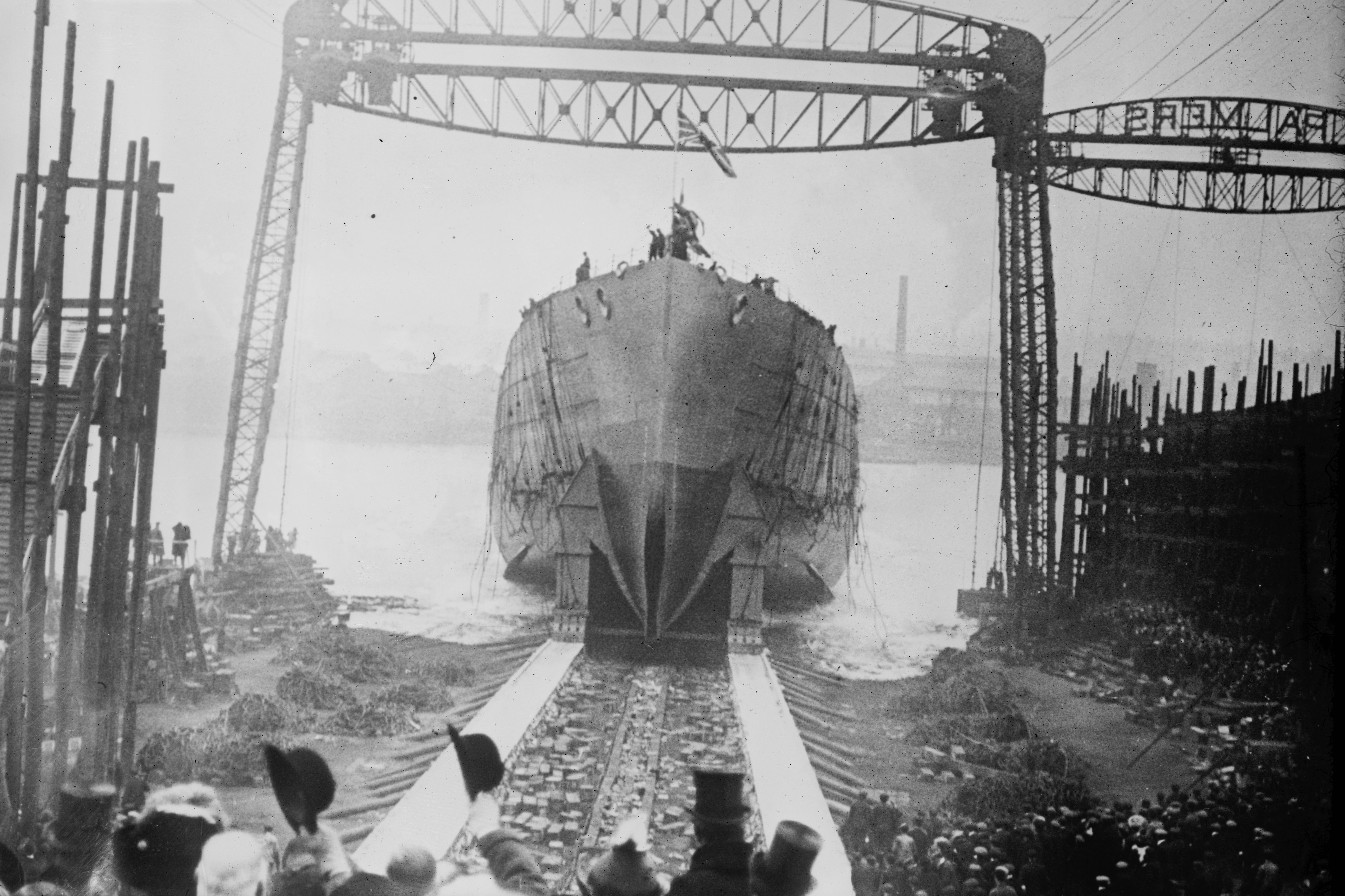 Launch of battlecruiser HMS Queen Mary at Palmer's Shipbuilding, Jarrow-on-Tyne, England